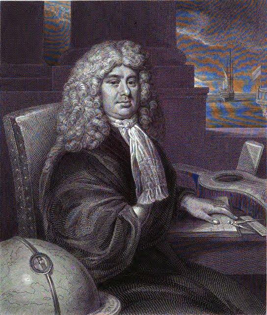 Portrait of Samuel Pepys, engraved for the first edition of the Rev. John Smith's 1825 edition of the diary.